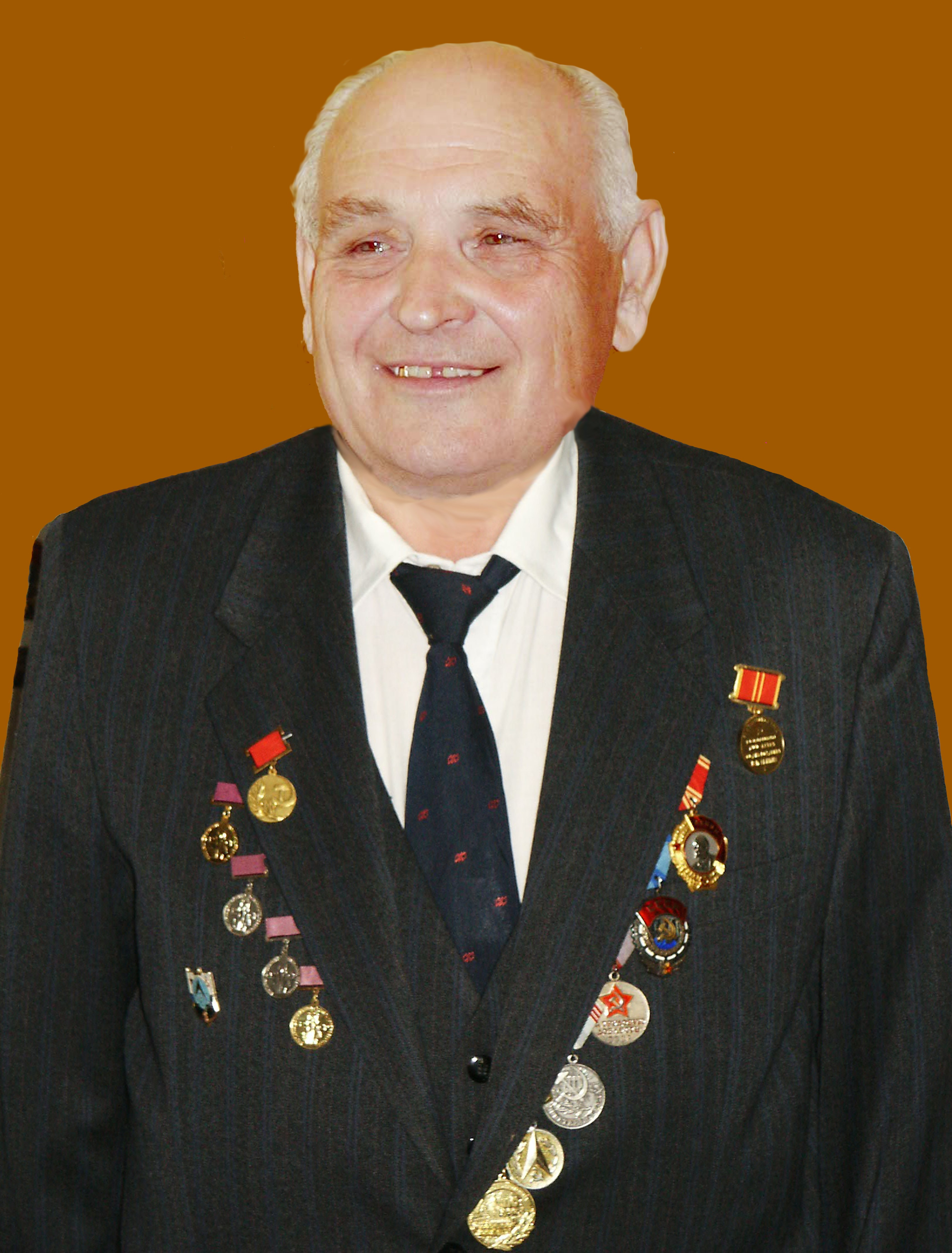 Prof. Vladilen F. Minin